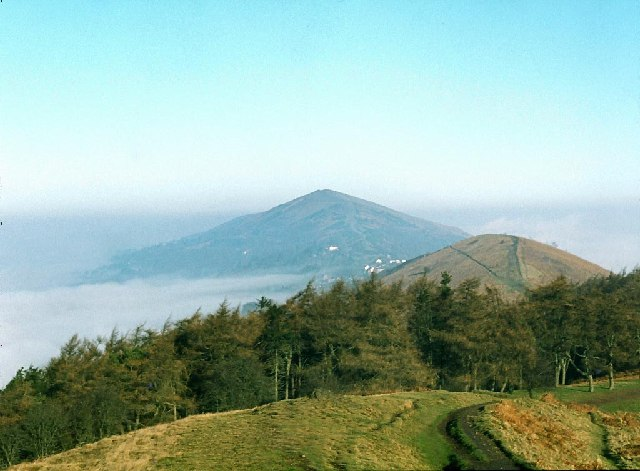 Thirds Land. Looking north from Pinnacle Hill. The wooded area is know as Thirdsland or "King's Third" being part of what was left when King Charles sold off his land in Malvern Chase - a former Royal Forest. Worcestershire Beacon is in the distance. On this day the mist was "pouring" slowly through the Wyche Cutting. In the foreground "Red Earl's Dyke" can be seen running along the ridge of the hills.